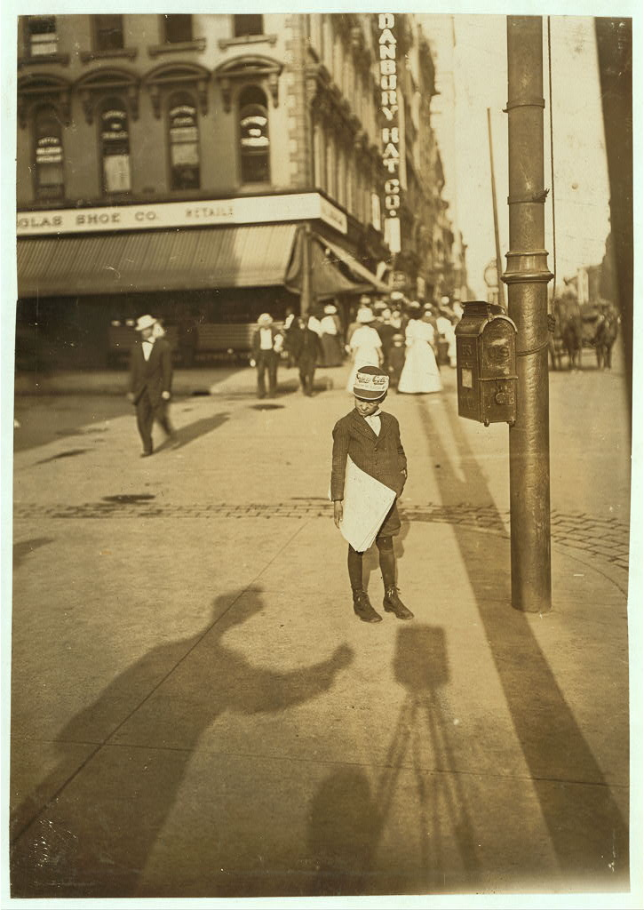 John Howell, an Indianapolis newsboy, makes $.75 some days. Begins at 6 a.m., Sundays. (Lives at 215 W. Michigan St.) Location: Indianapolis, Indiana. Photo shows a young newsboy standing at a busy street corner. The shadow of the photographer and his camera are in the foreground.